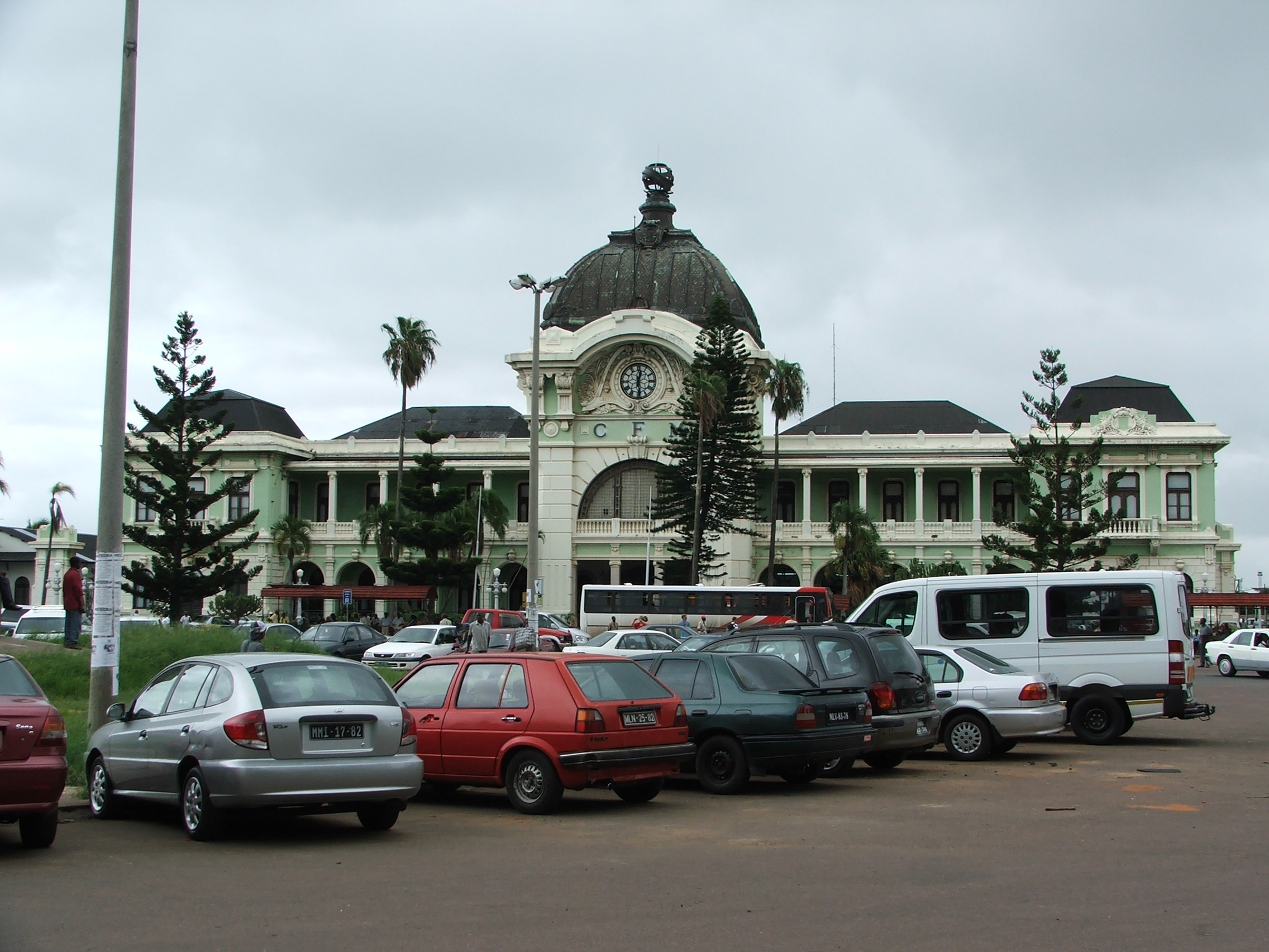 Maputo railway station